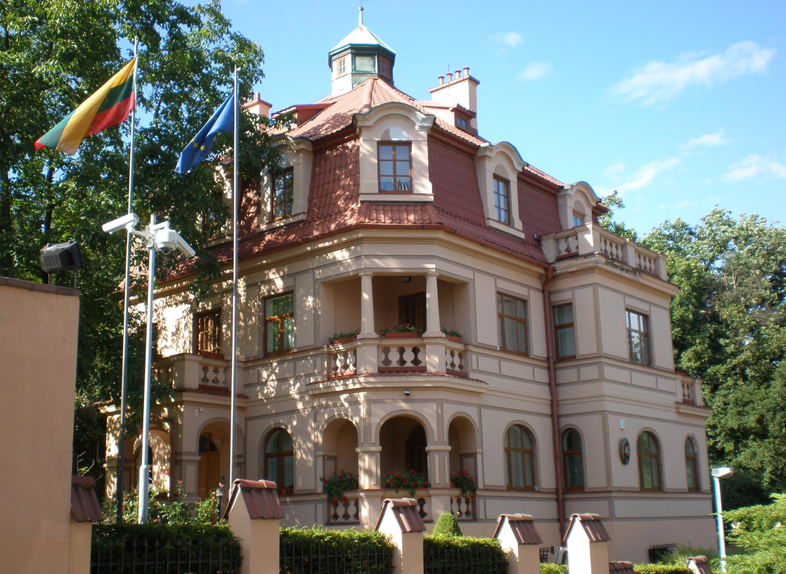 Embassy of Lithuania in Prague 5 - Smíchov, Pod Klikovkou street, Czech Republic.